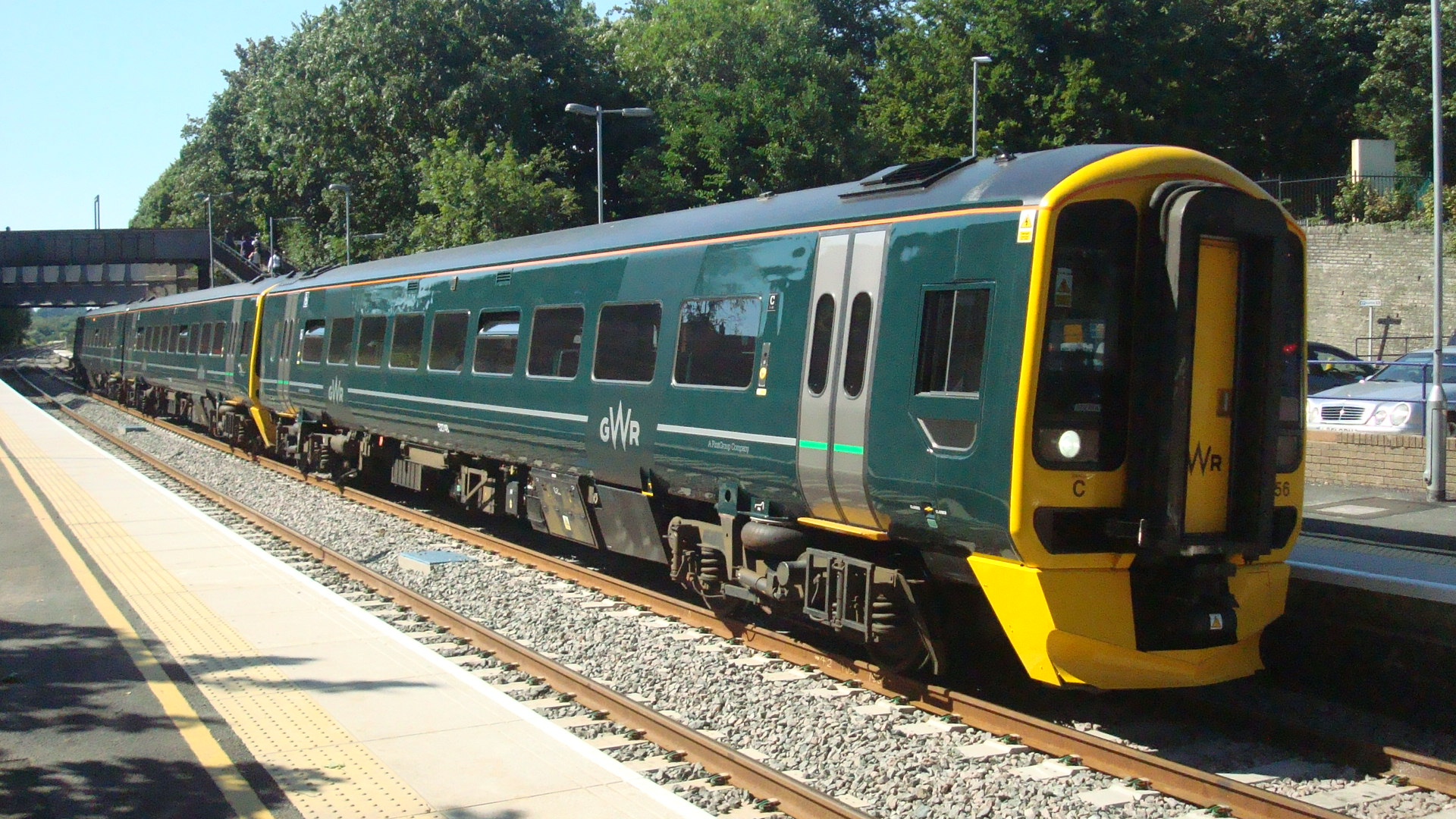 Keynsham.